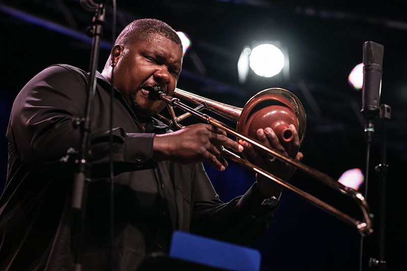 Wycliffe Gordon performing with Aarhus Jazz Orchestra 2018